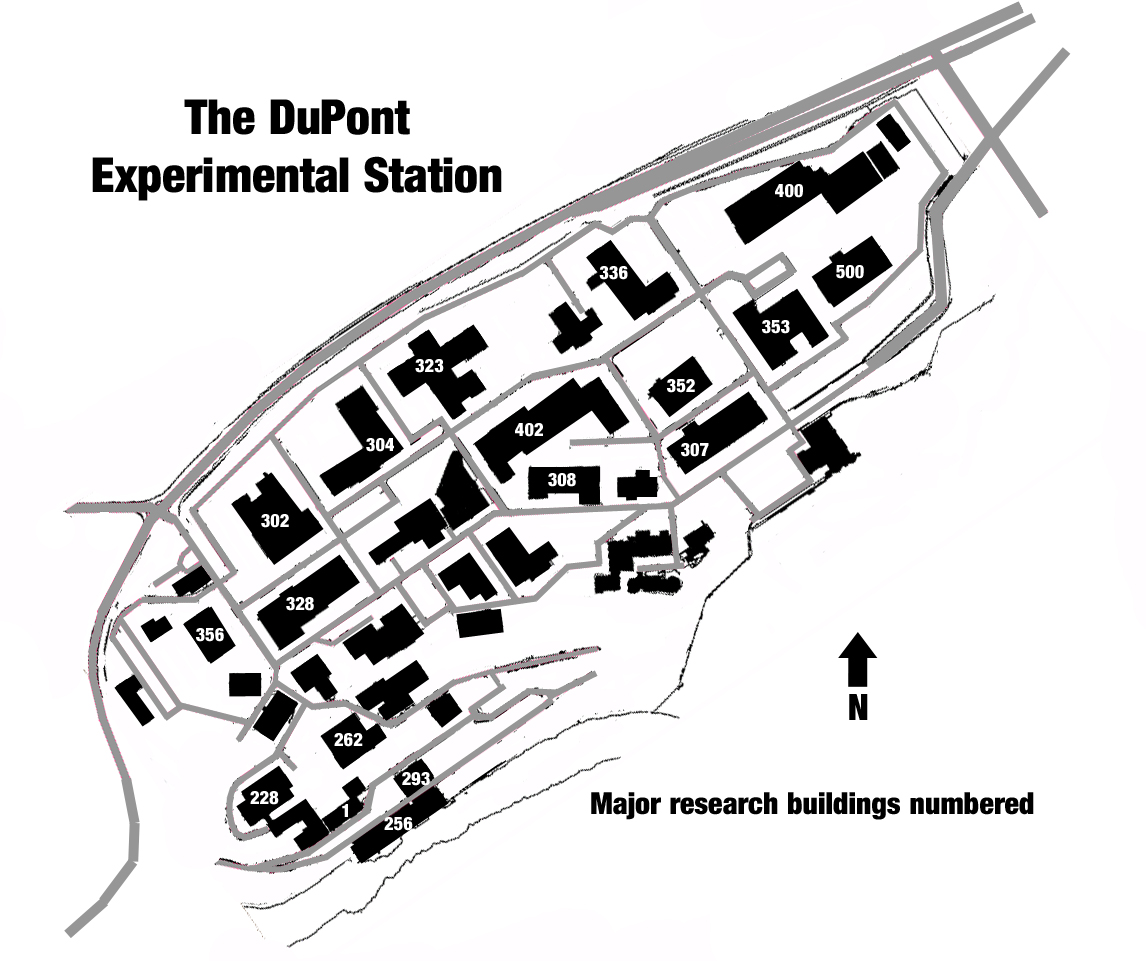 Map of the DuPont Experimental Station in Wilmington DE. These are the major research buildings. The map is not fixed in time in that not all of the buildings existed at the same time.